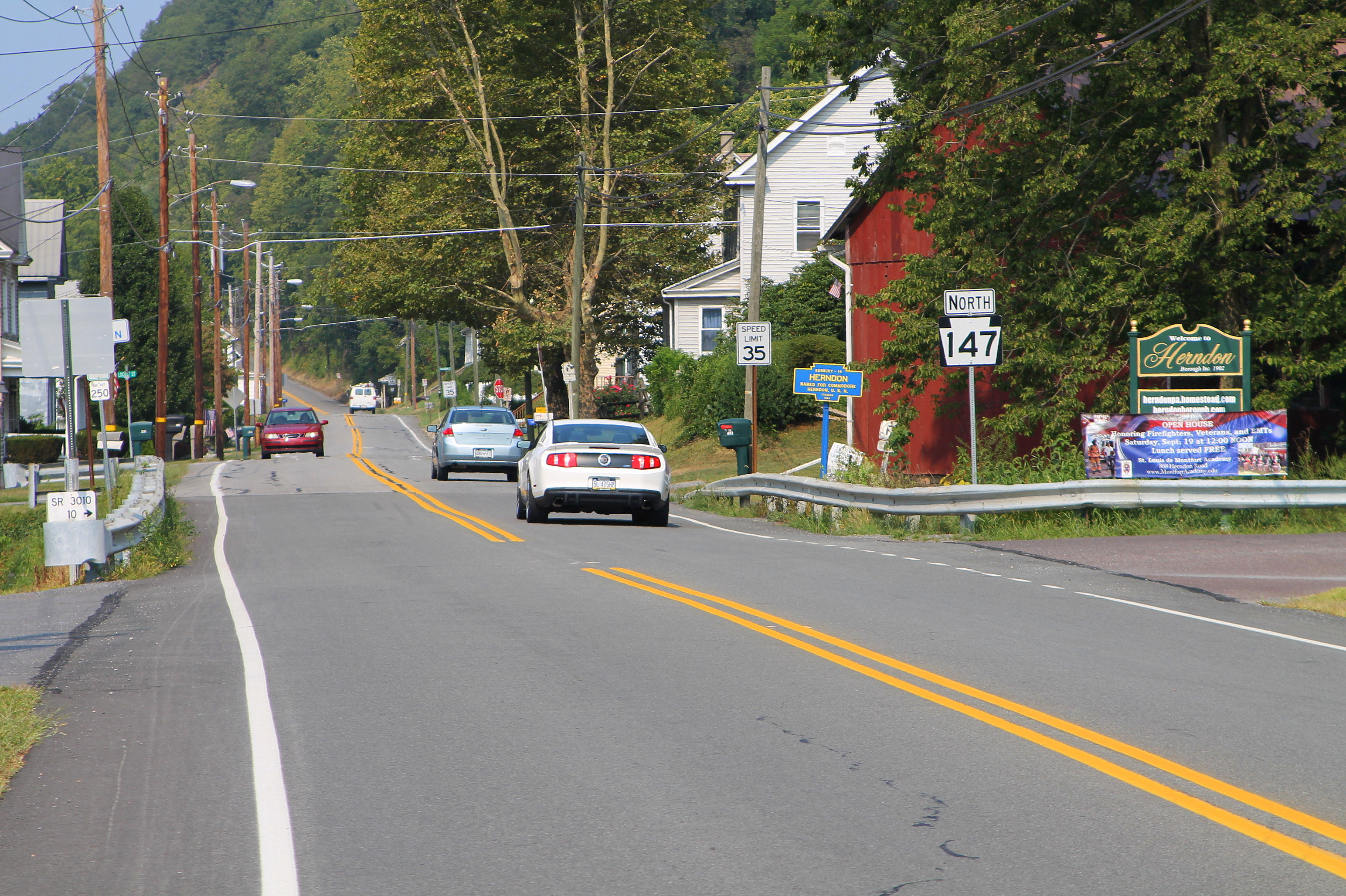 Entering Herndon from the south on Pennsylvania Route 147